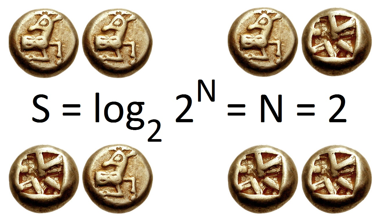 Information entropy (in bits) is the log-base-2 of the number of possible outcomes. With two coins there are four outcomes HH-HT-TH-TT, and the entropy is two bits.